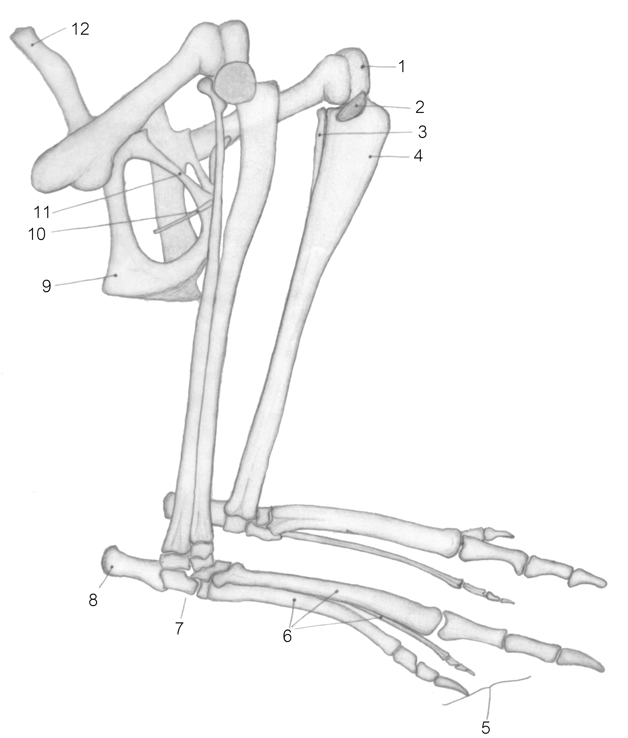 Pencil drawing of skeletal parts of the hind legs of the Eastern Grey Kangaroo